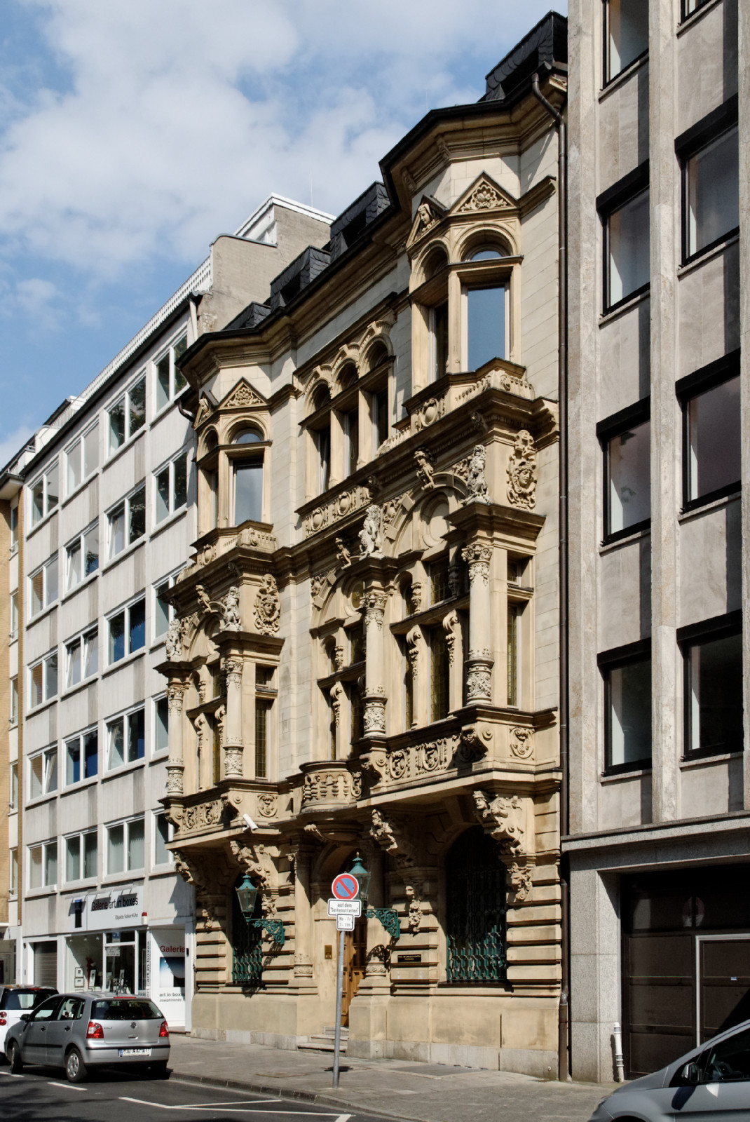 House Josephinenstraße 9 in Düsseldorf-Stadtmitte, Germany This is a photograph of an architectural monument.